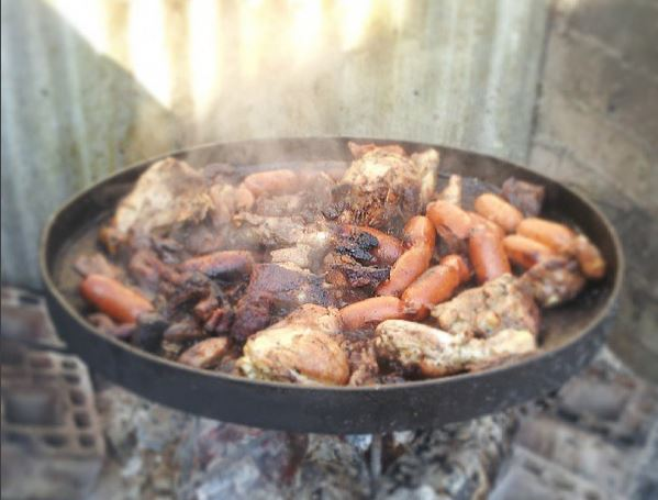 mixture of meats and seafood cooked in white wine and covered with sheets ready for cooking vegetables on a platter with coal iron